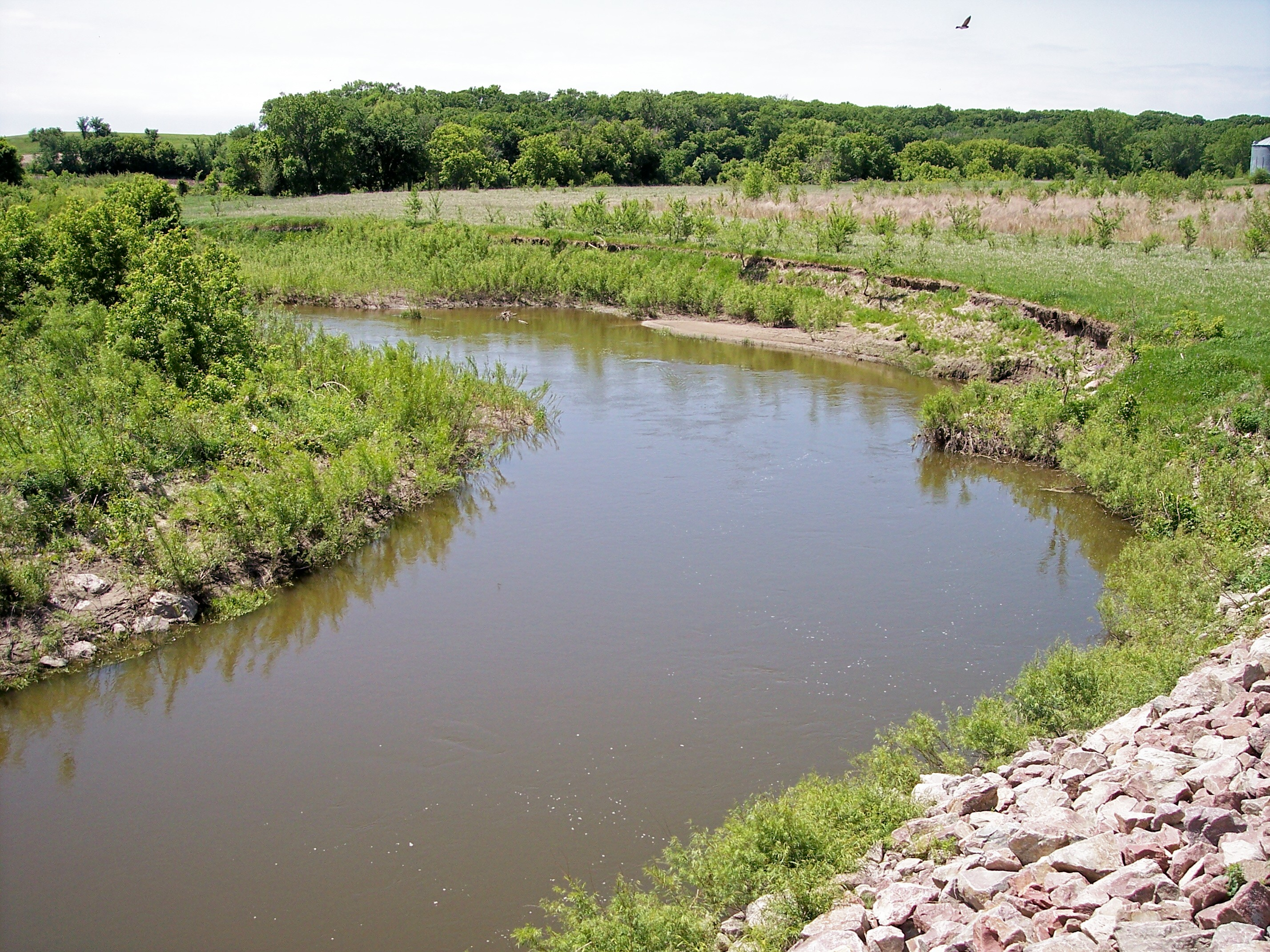 The Lac qui Parle River in Lac qui Parle Township, Minnesota, as viewed from County Road 31.